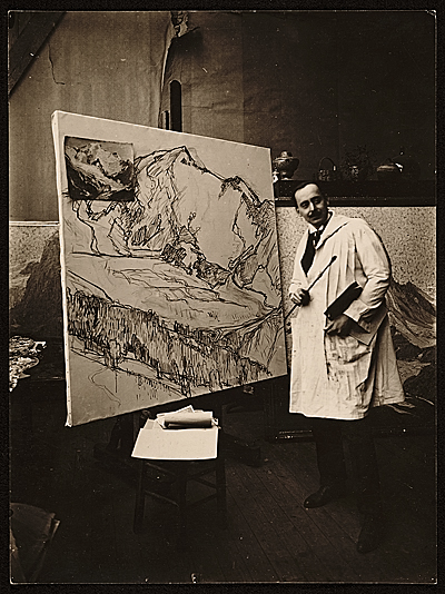 Edgar Payne in his Studio in Paris